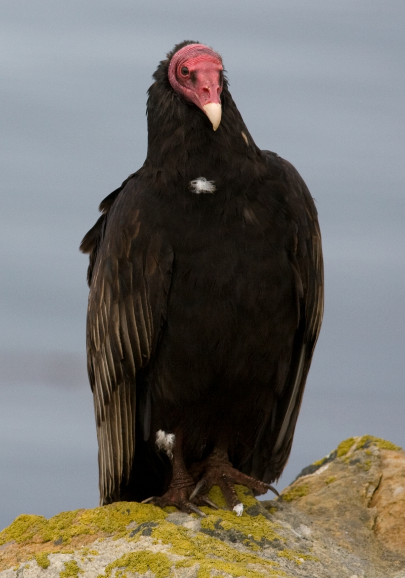 Turkey Vulture